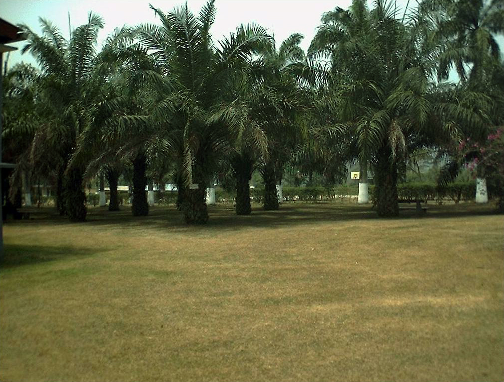 plantation